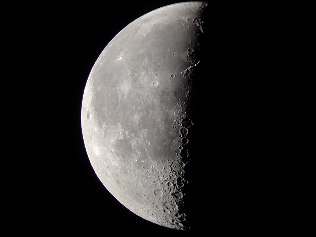 Photo taken with Nikon Coolpix P5000 put in afocal behind a telescope "Celestron C8" of 2000 mm focal distance equipped with an eyepiece of 40 mm focal distance.